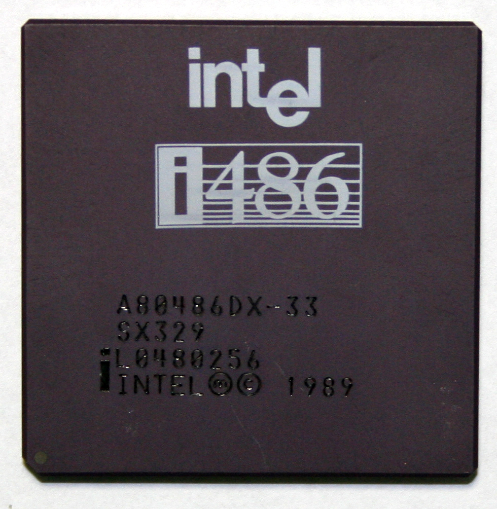 Intel_80486DX-33 This picture is taken by Weihao.chiu